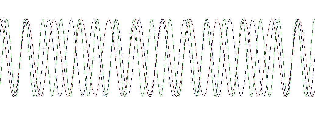 Three sinus tones in a chord (minor).